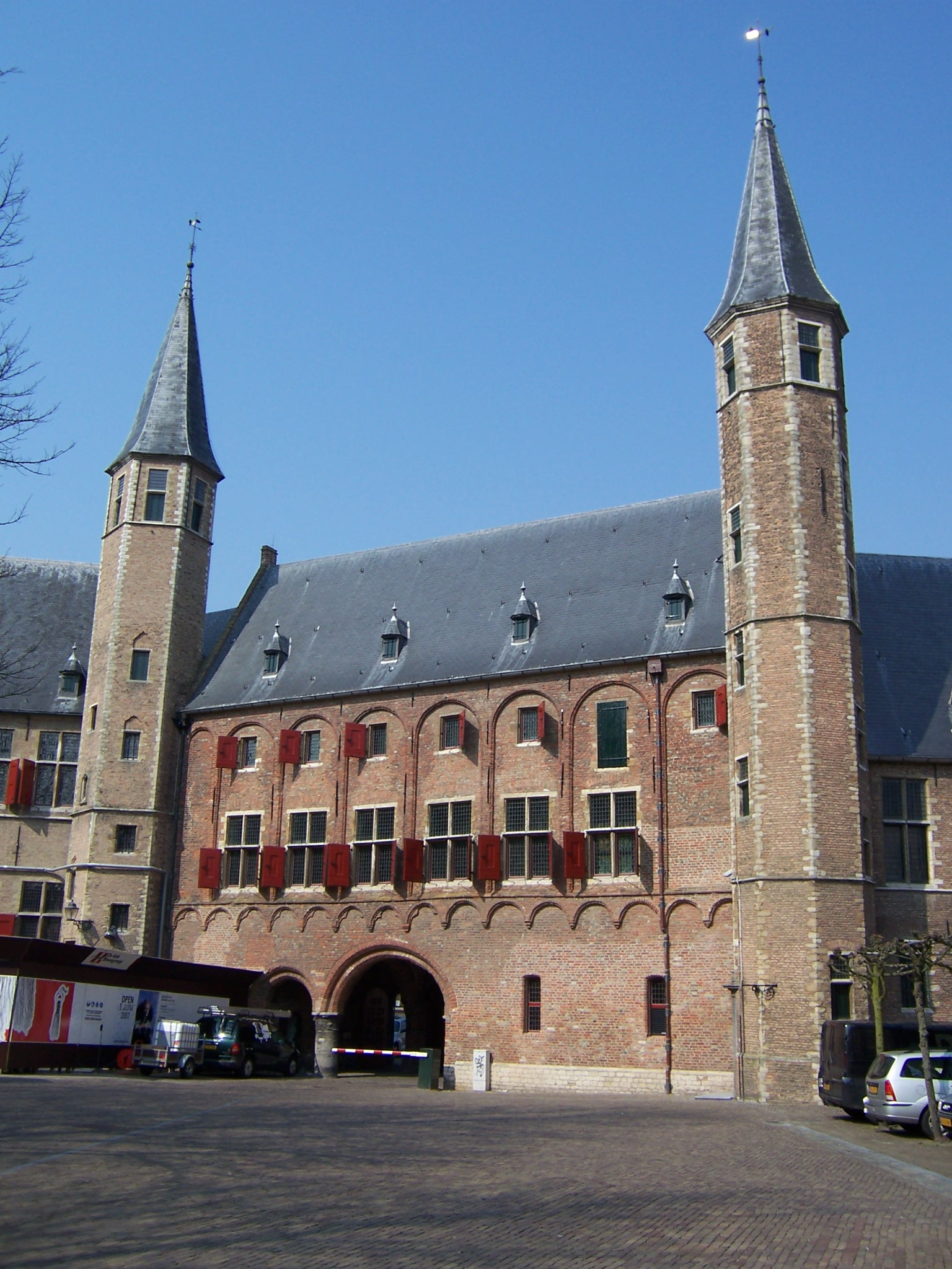 abbey Middelburg